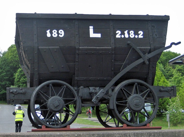 Beamish Museum, County Durham, England. The north side of the chaldron wagon mounted outside the entrance buildings (behind the camera), in the entrance area of the museum site.